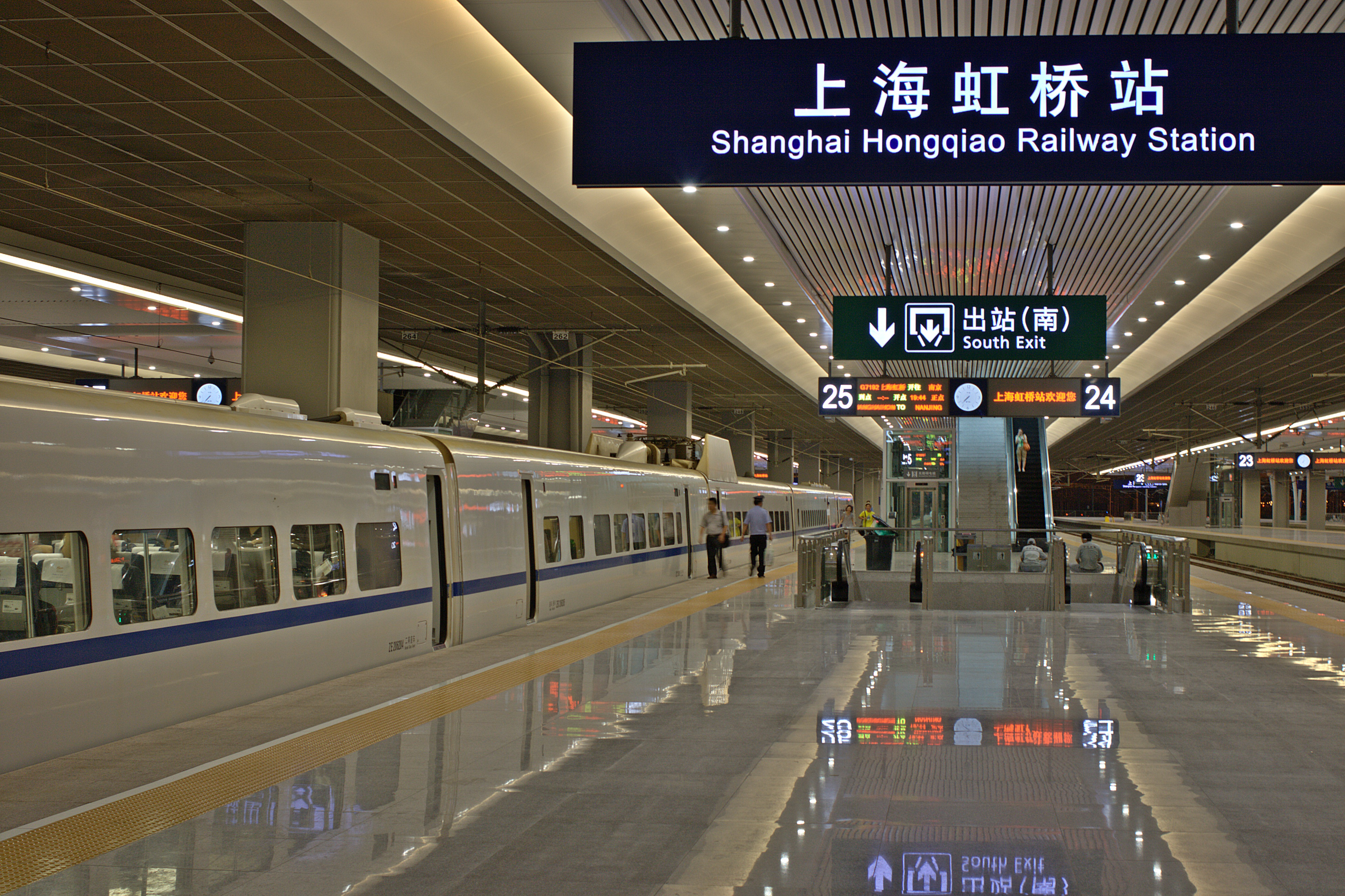 Platform 24/25 of Shanghai Hongqiao Railway Station